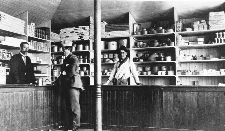 Photograph, Interior, Revillon Frères trading store, Fort George, QC, about 1910, Samuel Herbert Coward, Silver salts on paper mounted on paper - Gelatin silver process - 7 x 13 cm